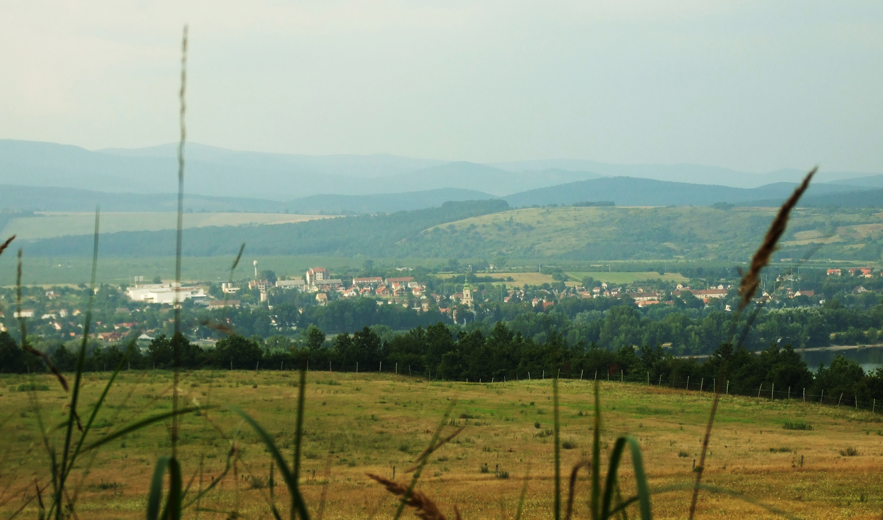 City of Szob seen in the distance, Komárom-Esztergom comitat, Hungaryhelp